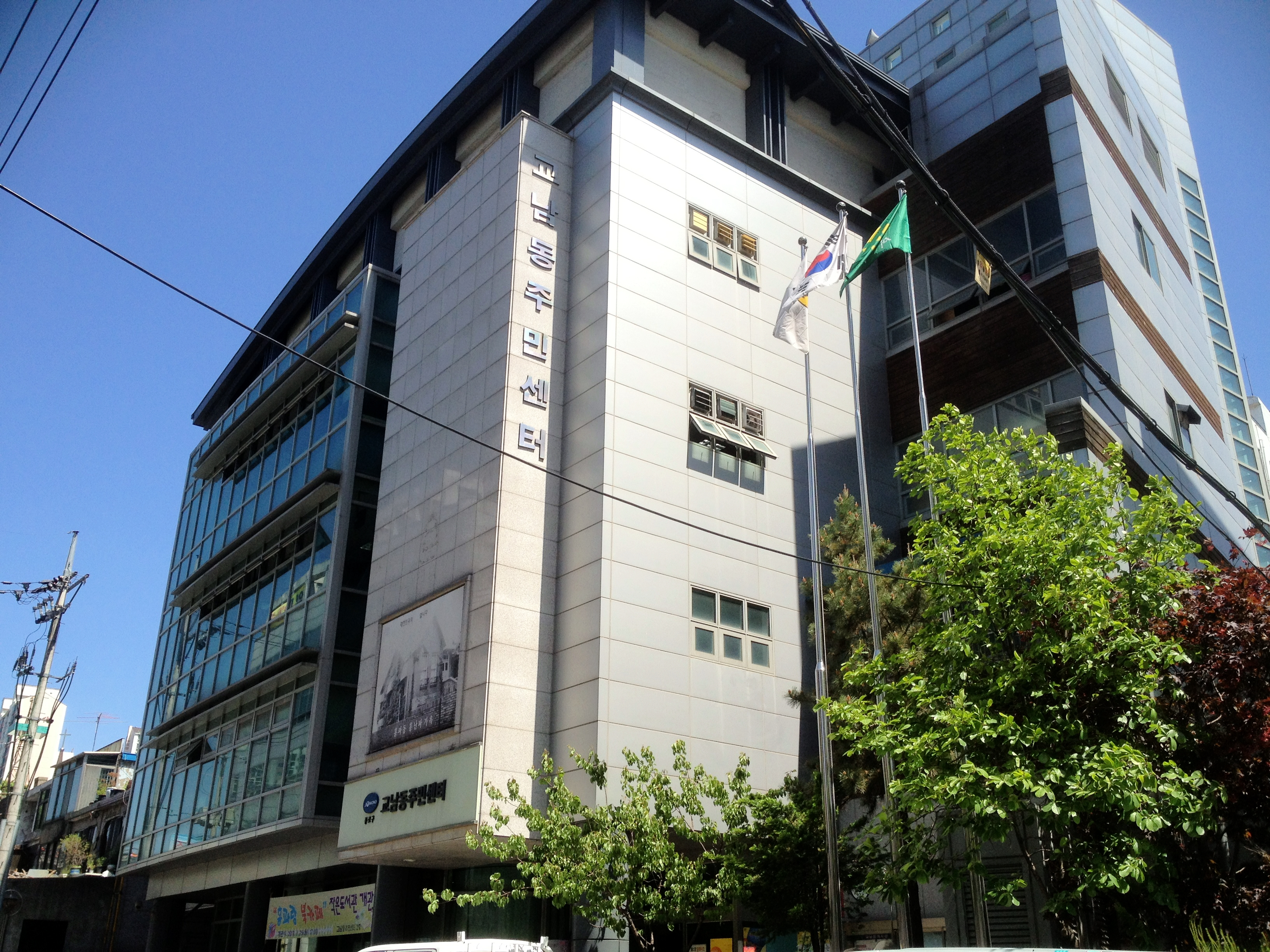 Gyonam-dong Comunity Service Center(Jongno-gu)